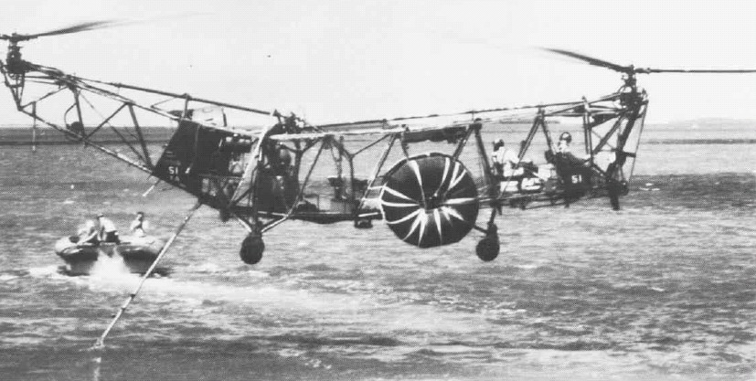 A U.S. Navy Piasecki XHRP helicopter with flotation bags during towing tests in June 1953.